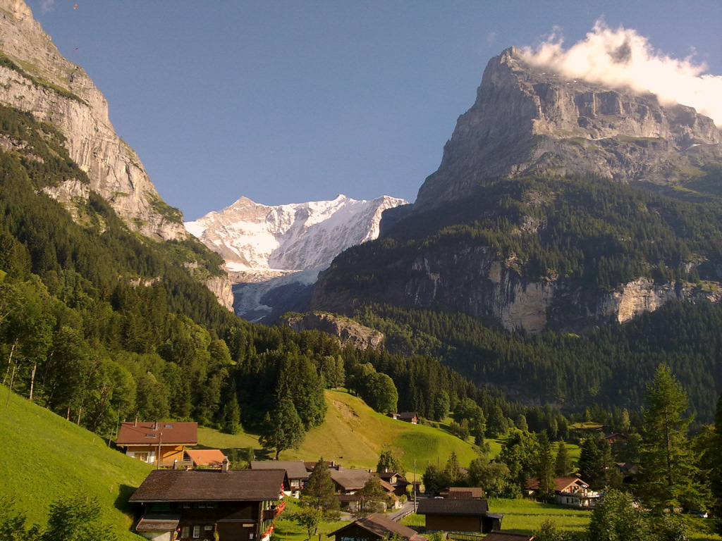 Grindelwald, Switzerland